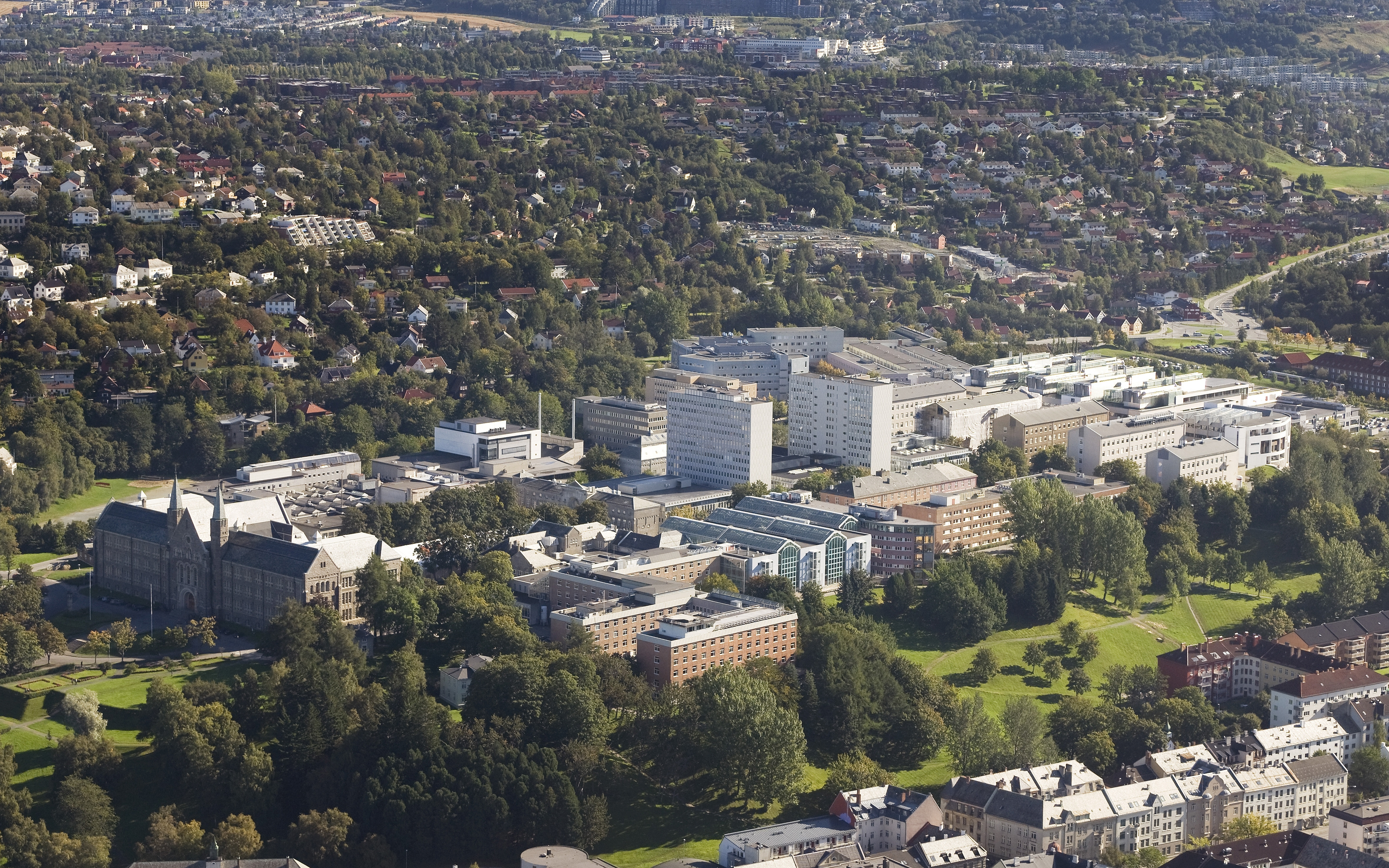 Aerial photo of the Campus NTNU Gløshaugen, Trondheim, from NW.